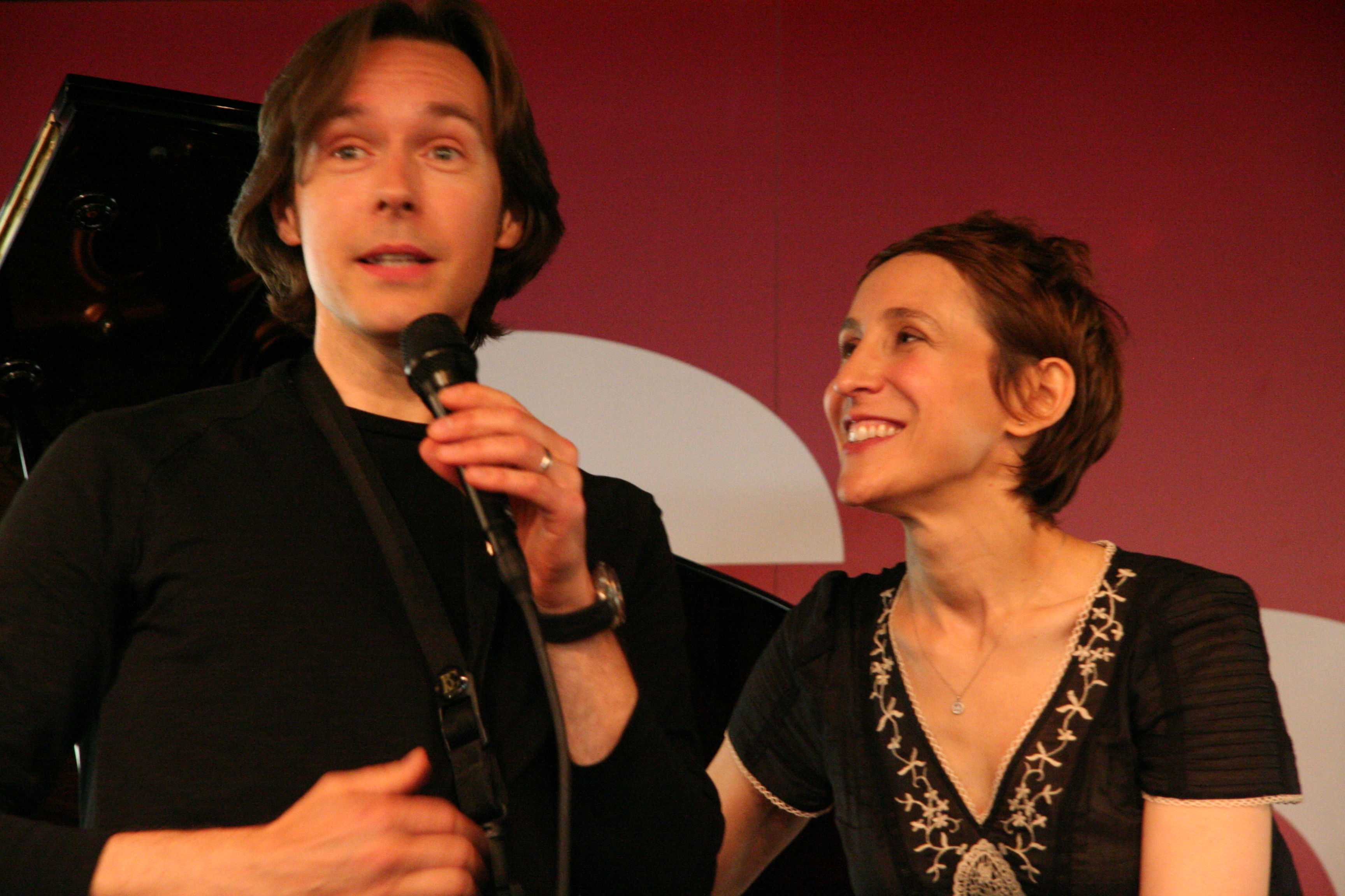 Show-case with Stacey Kent at Fnac Montparnasse (Paris, France).